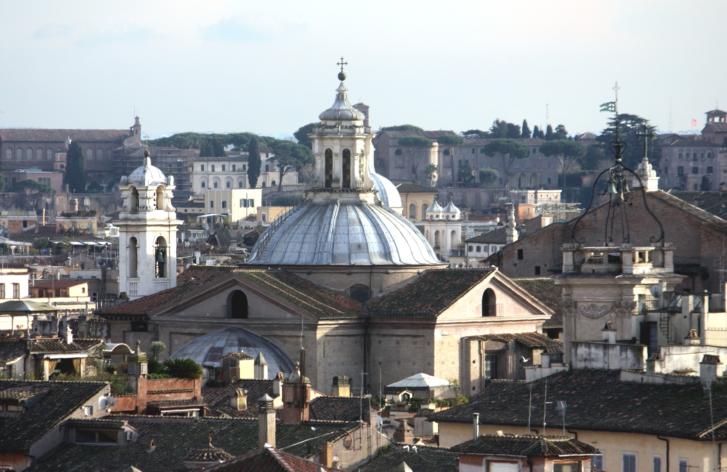 Rome, view from the Castel Sant'Angelo to the church Santa Maria in Vallicella